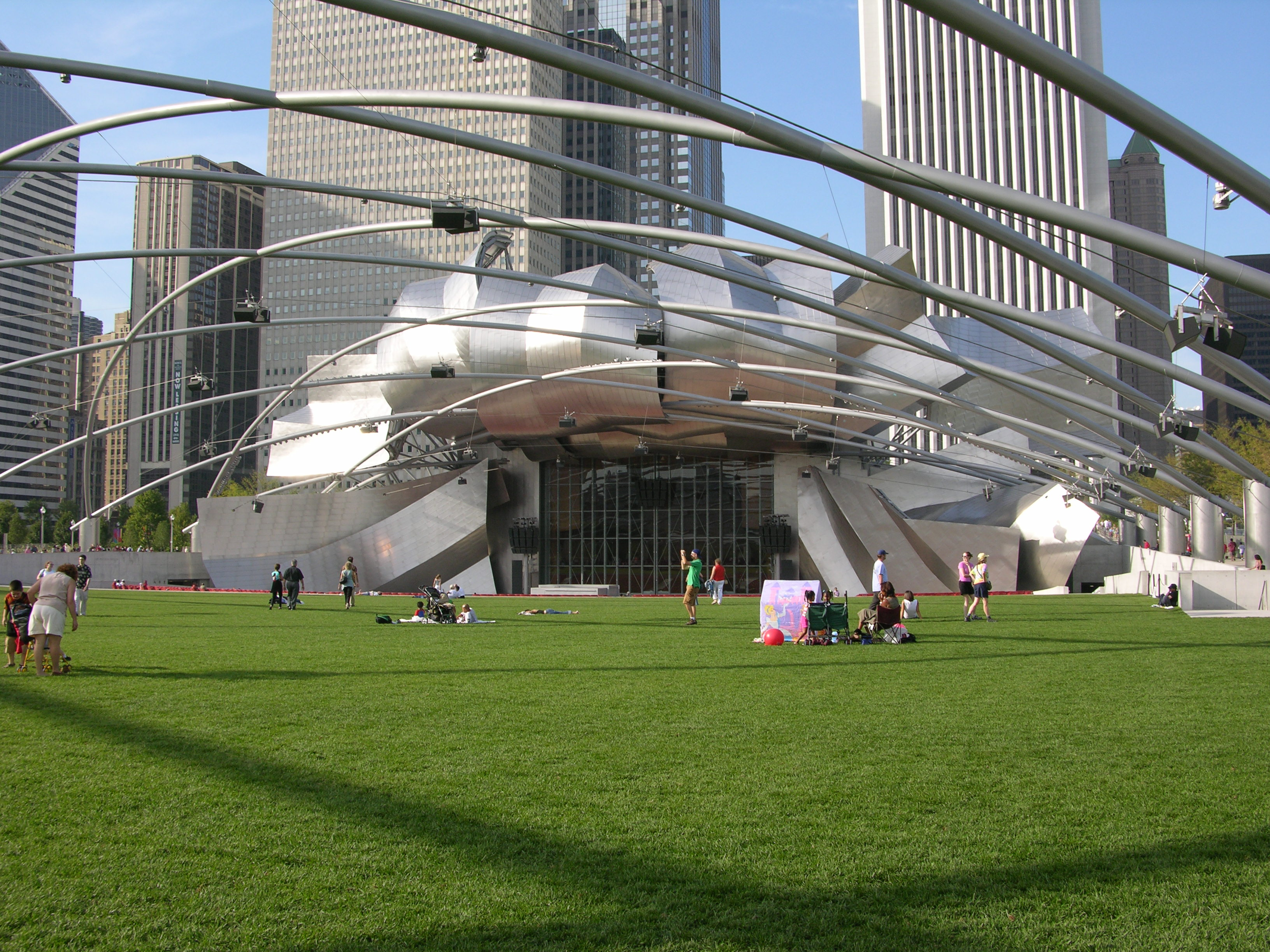 Author: Sergio Perez. September 2004. Camera Nikon coolpix 8 MPixel. Jay Pritzker pavillion, Millenium park, Chicago